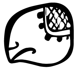 Maya:glyph:logogram:calendric:Tzolkin:Day05:Chikchan:codex+W:v01. Img created by CJLL Wright.